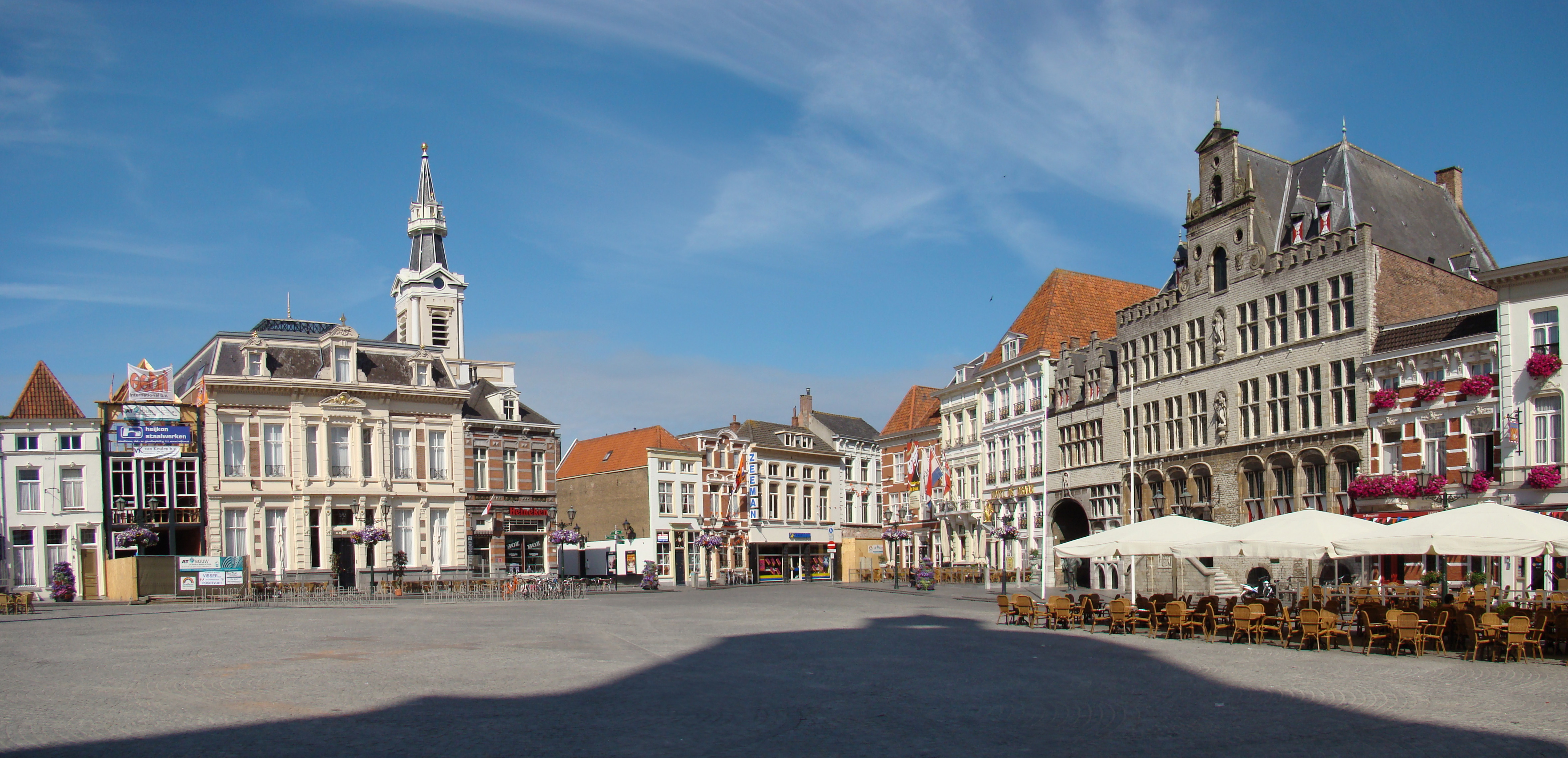 Impressions of Bergen op Zoom, Netherlands